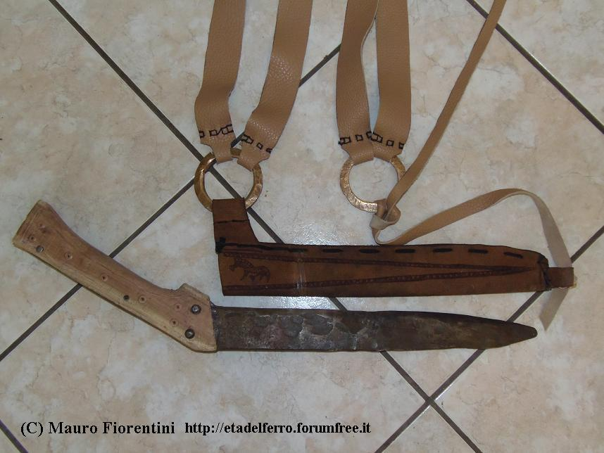 A Picenian short sword ("Novilara type") built by Mauro Fiorentini ( using the replica of an Iron Age forge.